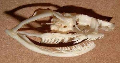 Skull of a western hognose snake, displaying rear fangs